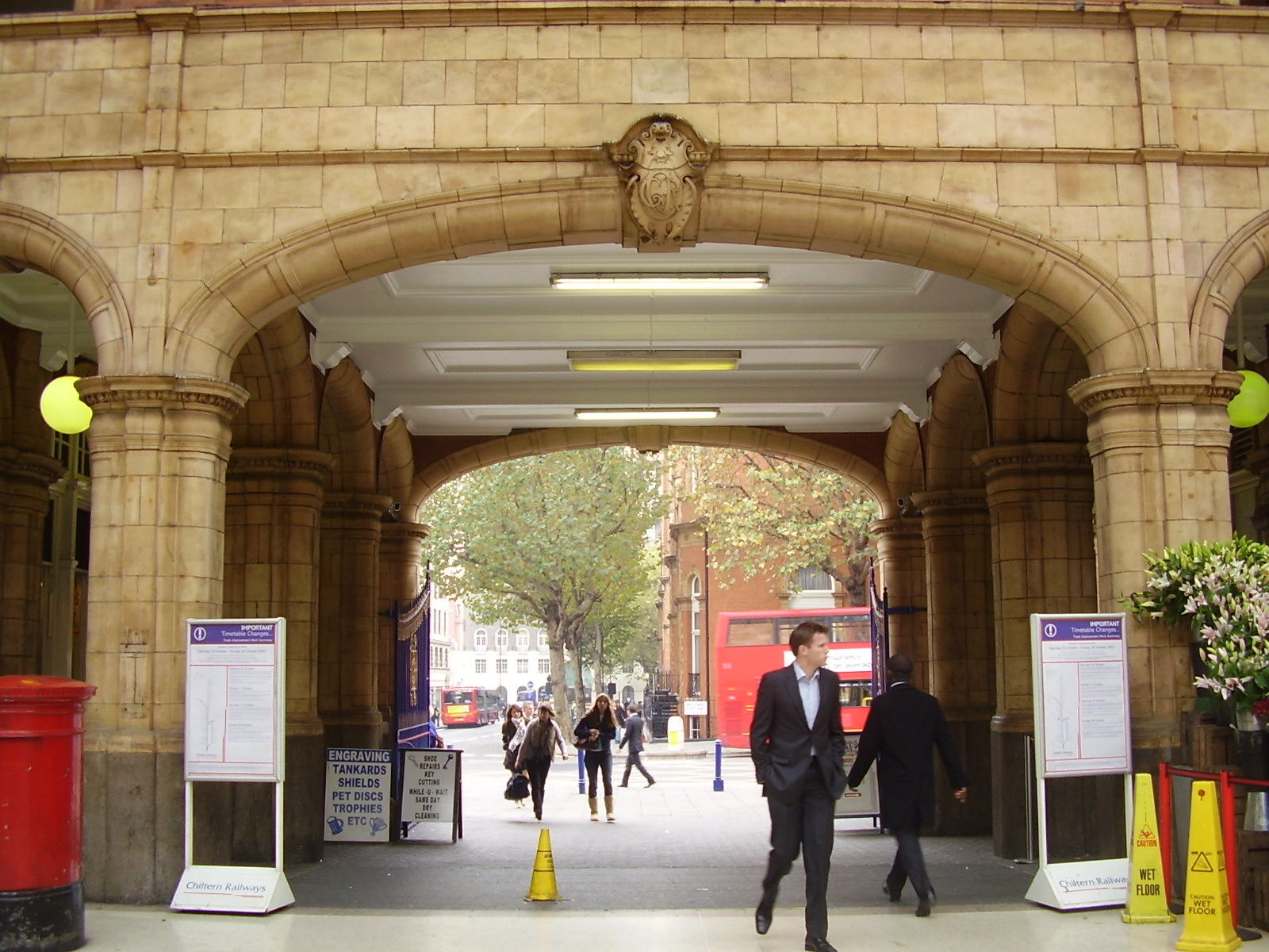 The exit/entrance of Marylebone station in October 2007. Note the GCR emblem.